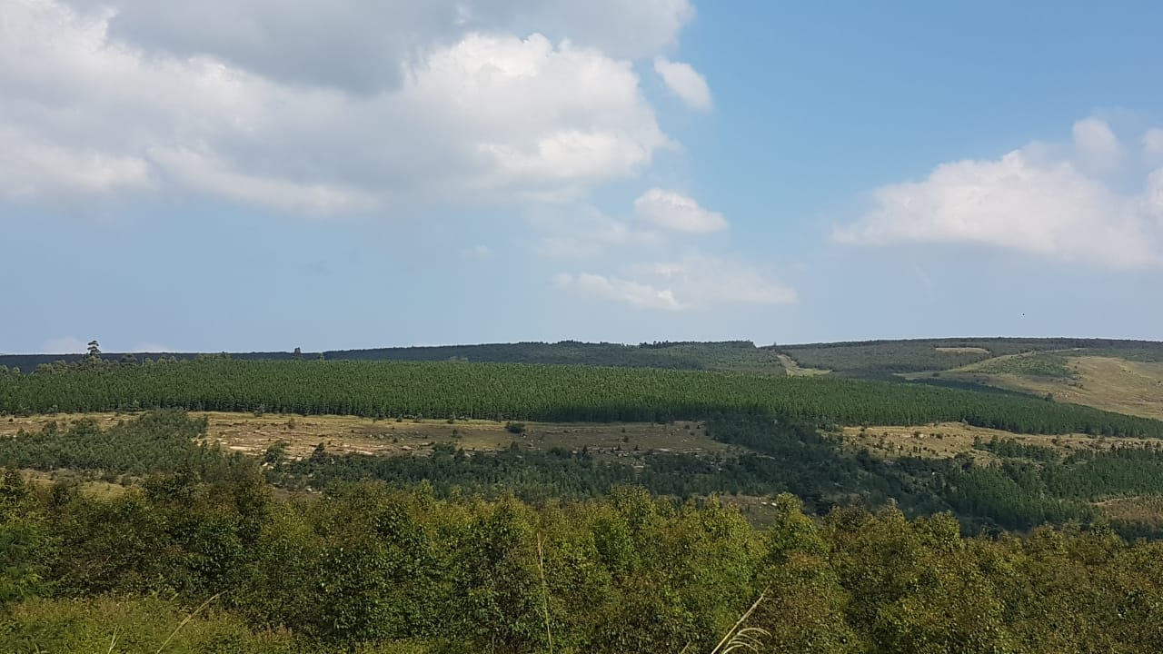 This is an image with the theme "Play" from: South Africa